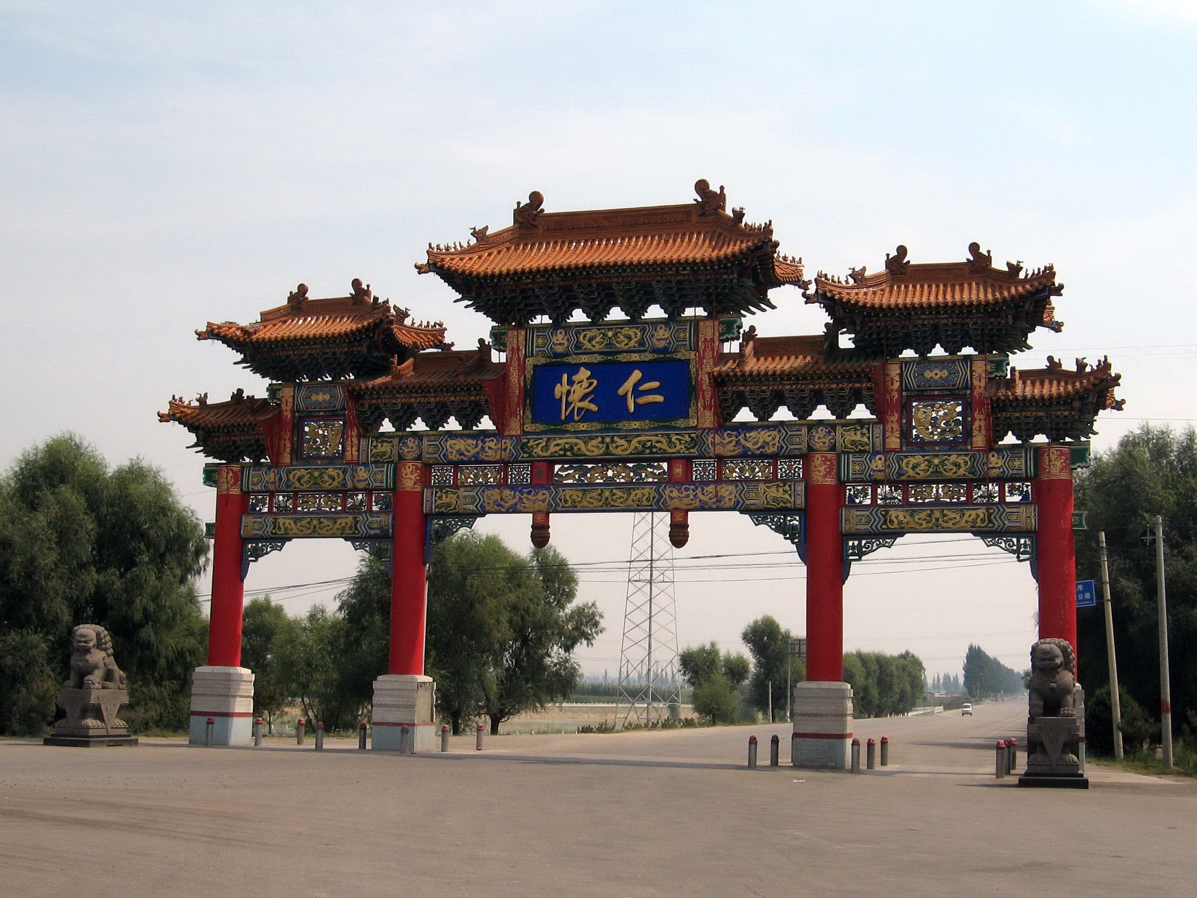 Huairen Pailou, Huairen, Shanxi, China